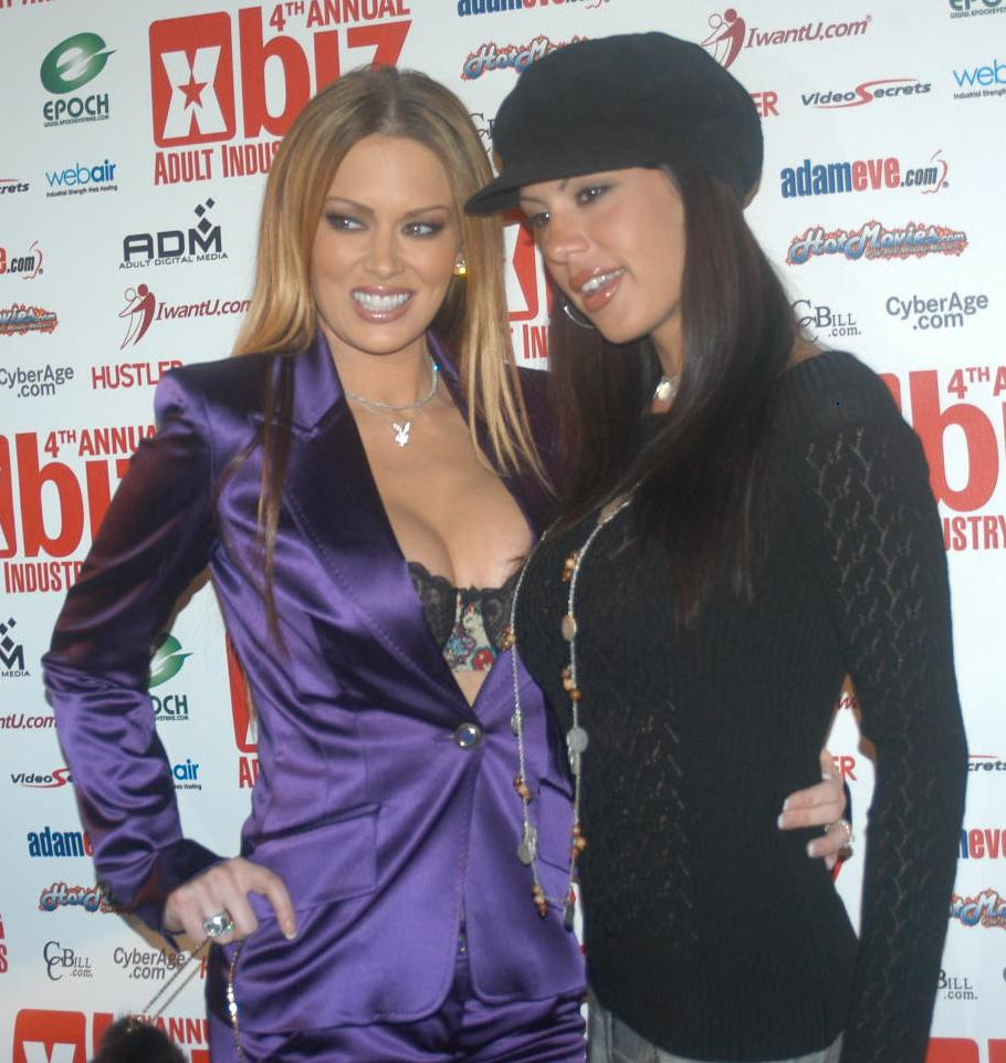 Jenna Jameson, McKenzie Lee at the XBiz Awards, November 17, 2005